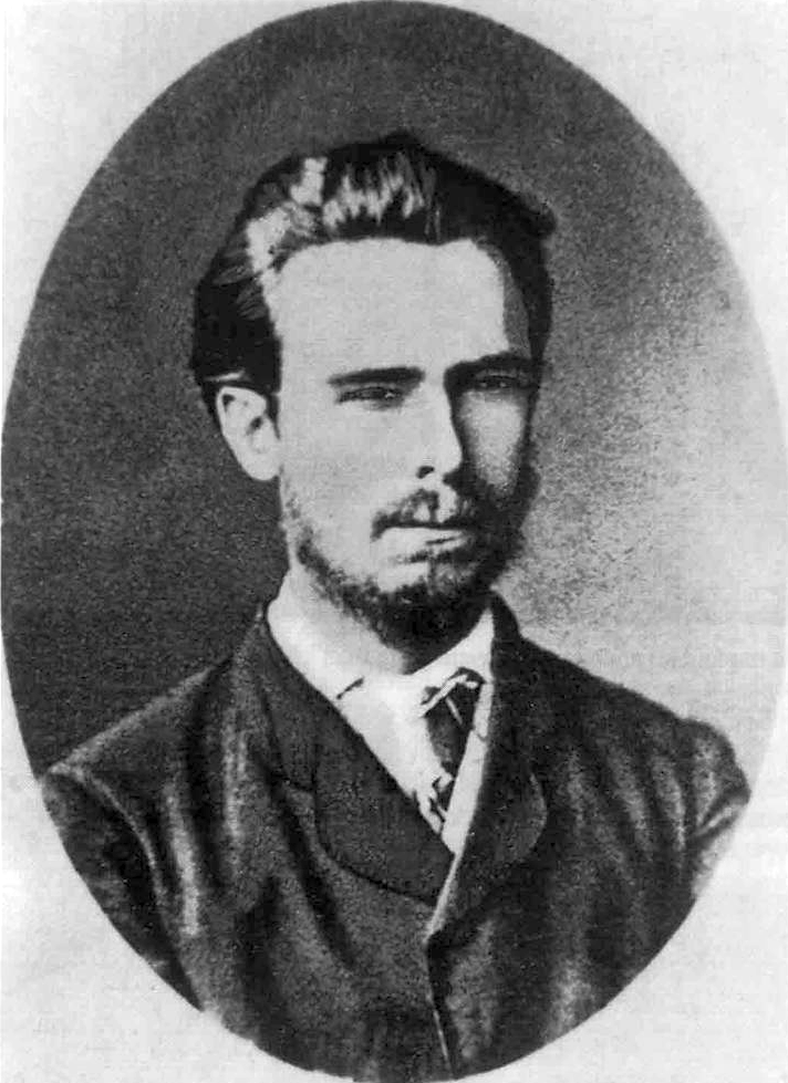 An 1870 photograph of Sergey Gennadiyevich Nechayev (Сергей Геннадиевич Нечаев), the Russian nihilist revolutionary. I've modified the original scan to improve its quality.